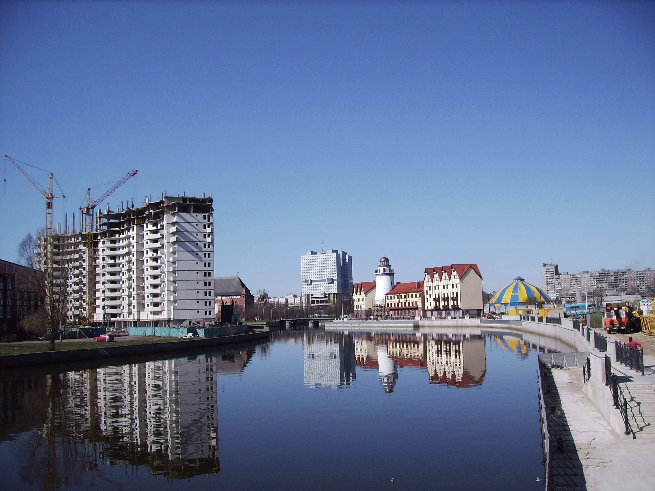 River Pregolya in kaliningrad.